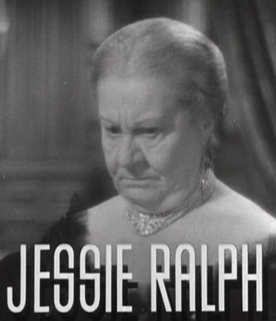 Cropped screenshot of Jessie Ralph from the trailer for After the Thin Man